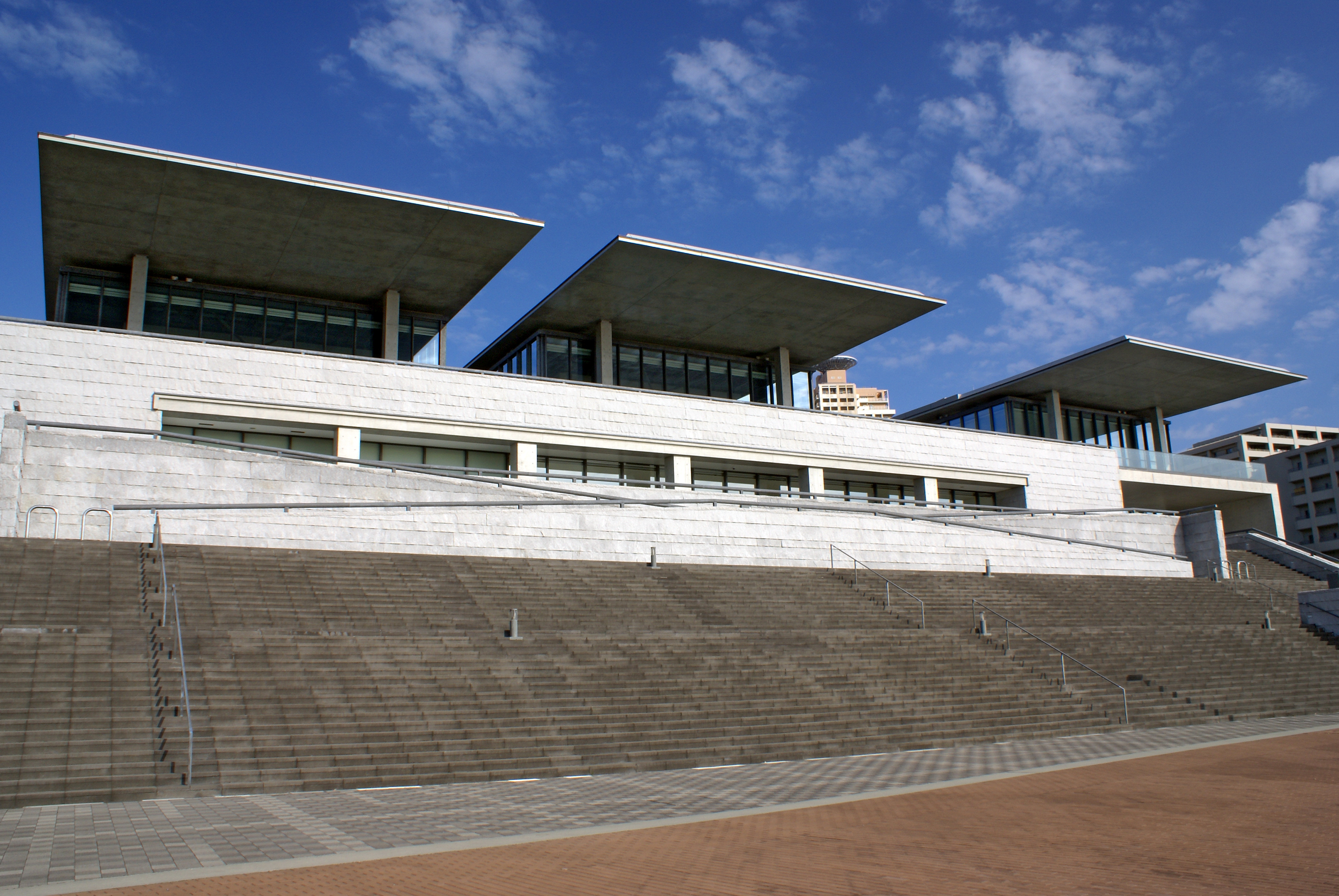 Hyogo Prefectural Museum of Art in Kobe, Hyogo prefecture, Japan